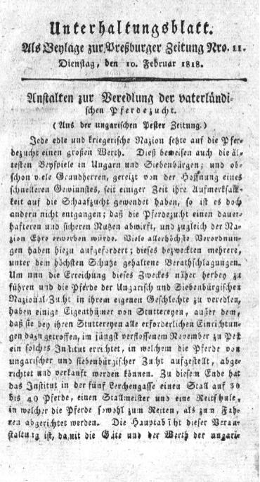 Title page of Unterhaltungsblatt, a supplement to Pressburger Zeitung in 19th century.